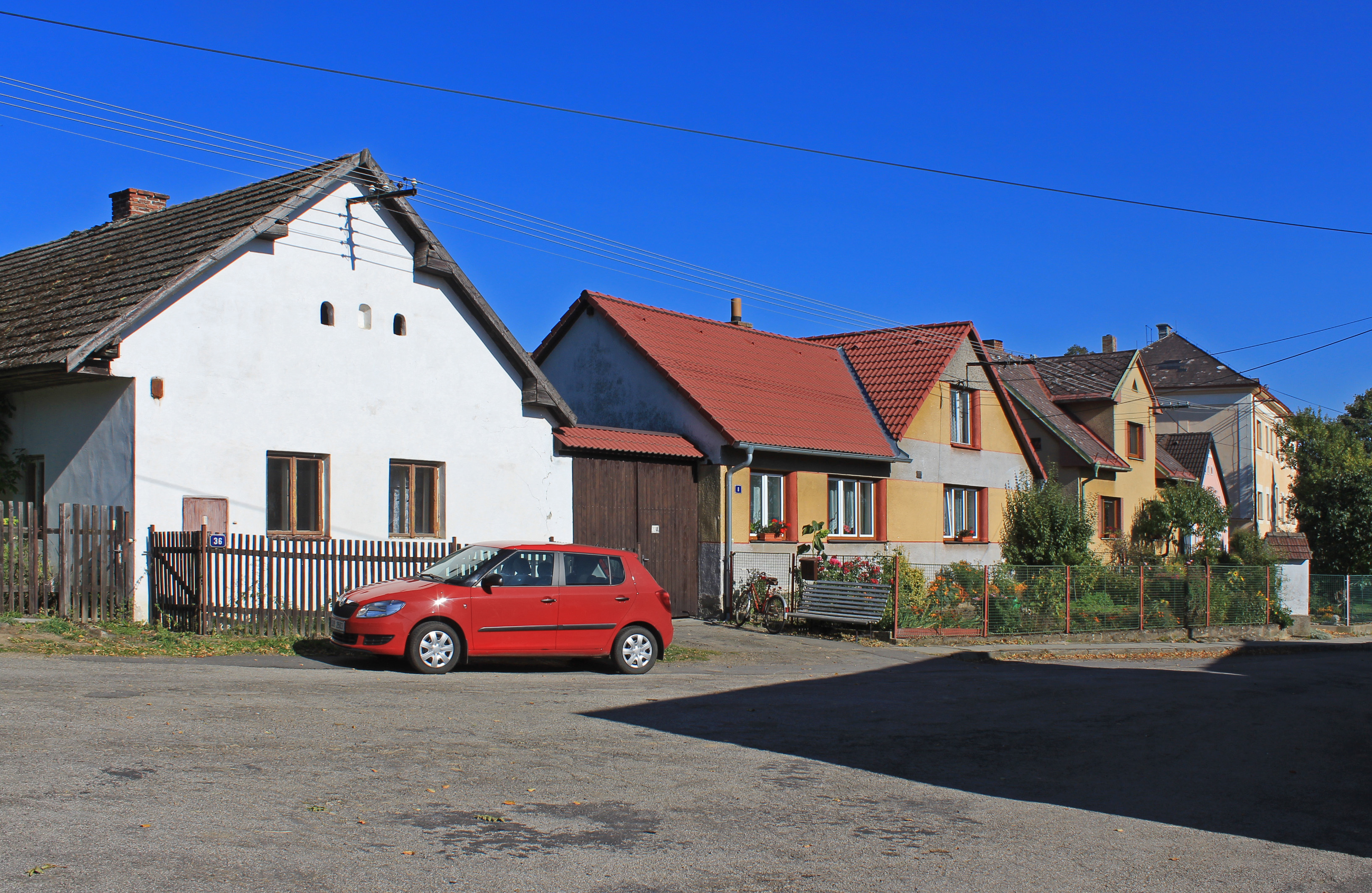 Common in Chválkov, part of Mnich, Czech Republic.